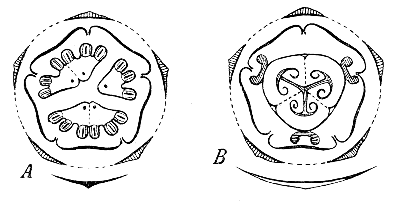 flower diagram of Ecballium: A male, B female flower